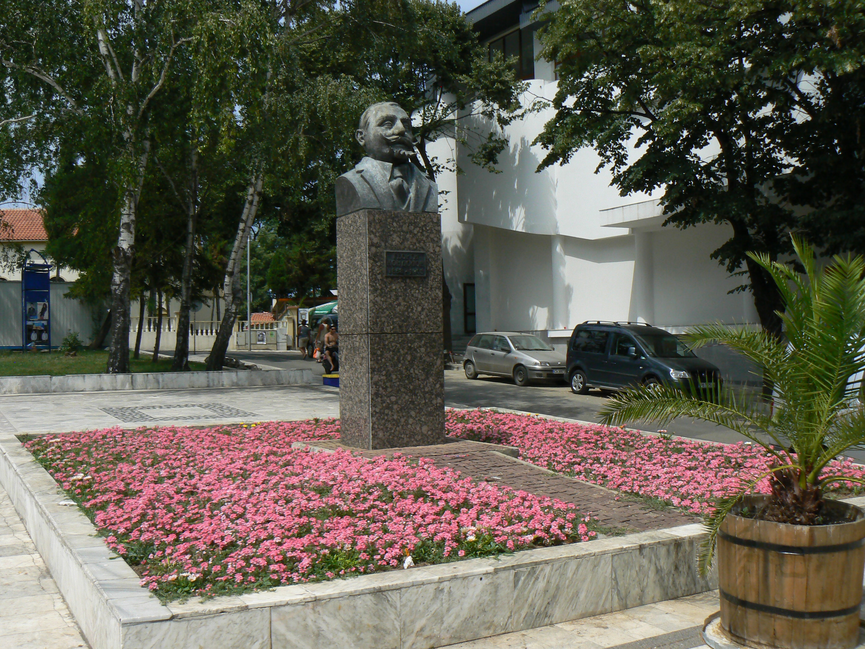 The monument of Georgi Kondolov in the town of Tsarevo, Bulgaria